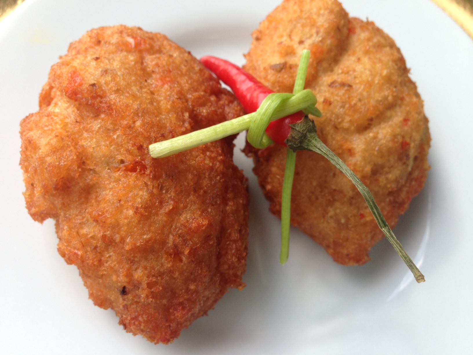 Akara or Nigerian bean cake is a staple breakfast in Nigeria. Recipe available on This is an image of food from Nigeria